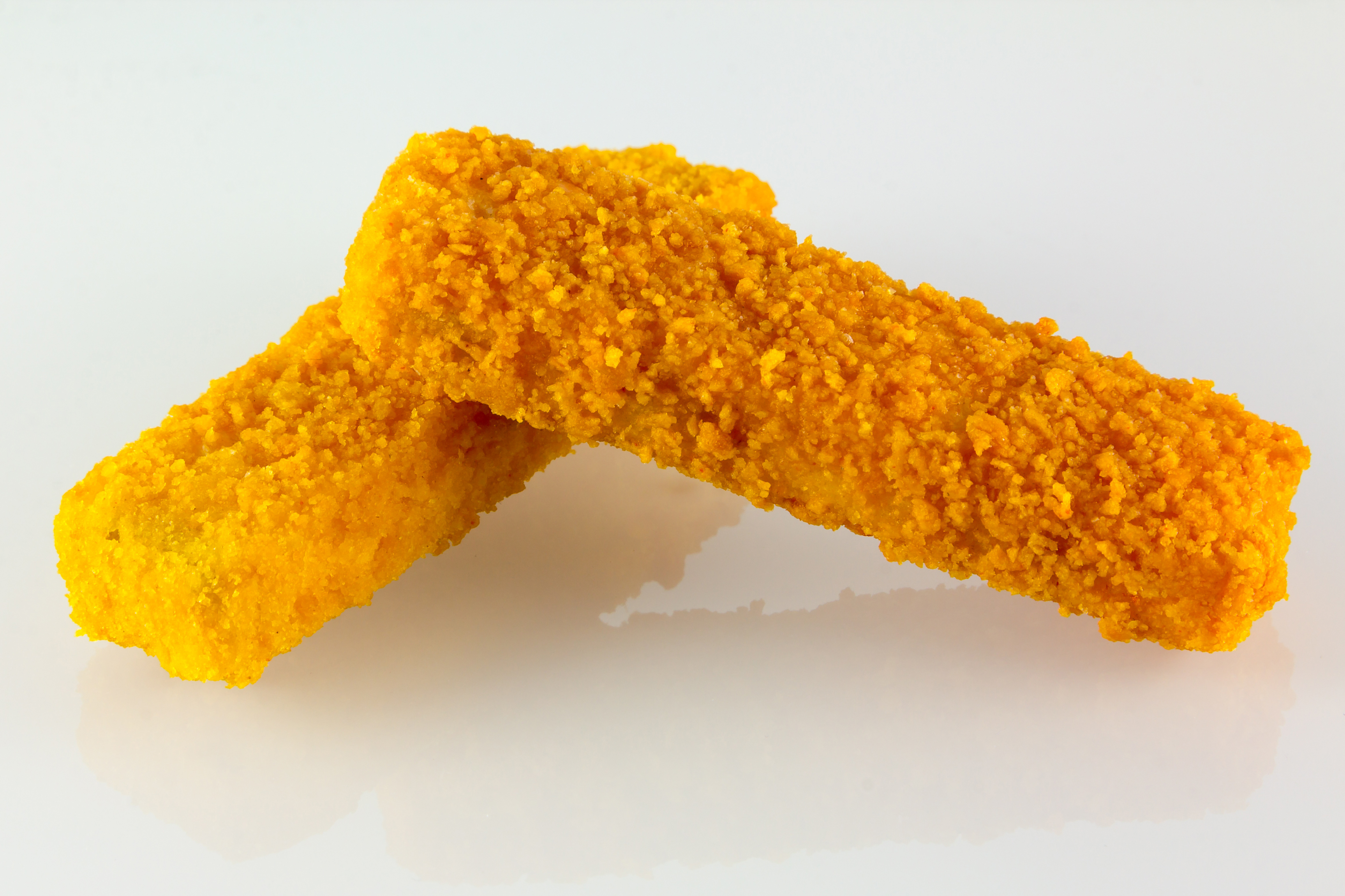 Frozen Fishfingers